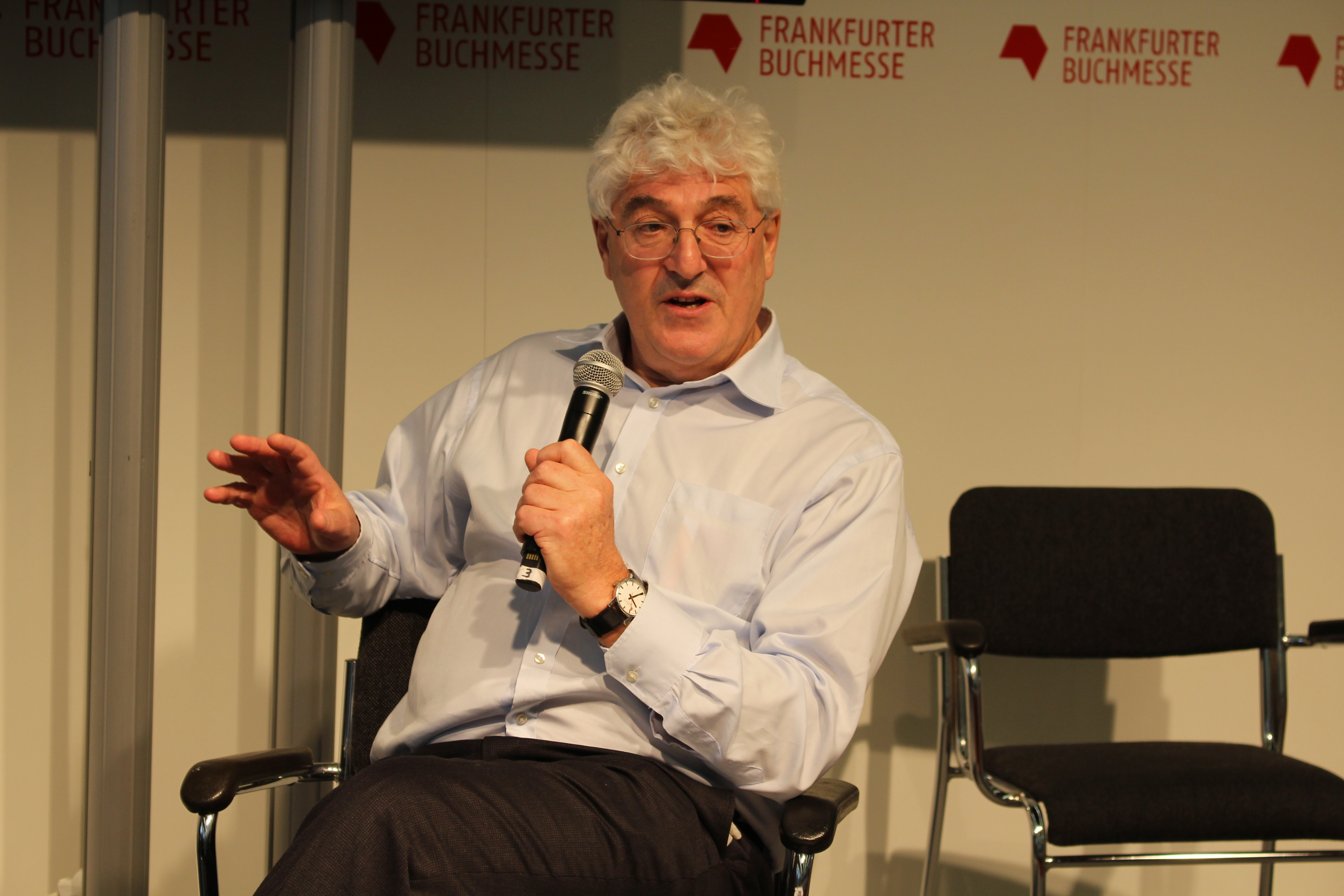 Richard Charkin at Frankfurt Buchmesse 2016